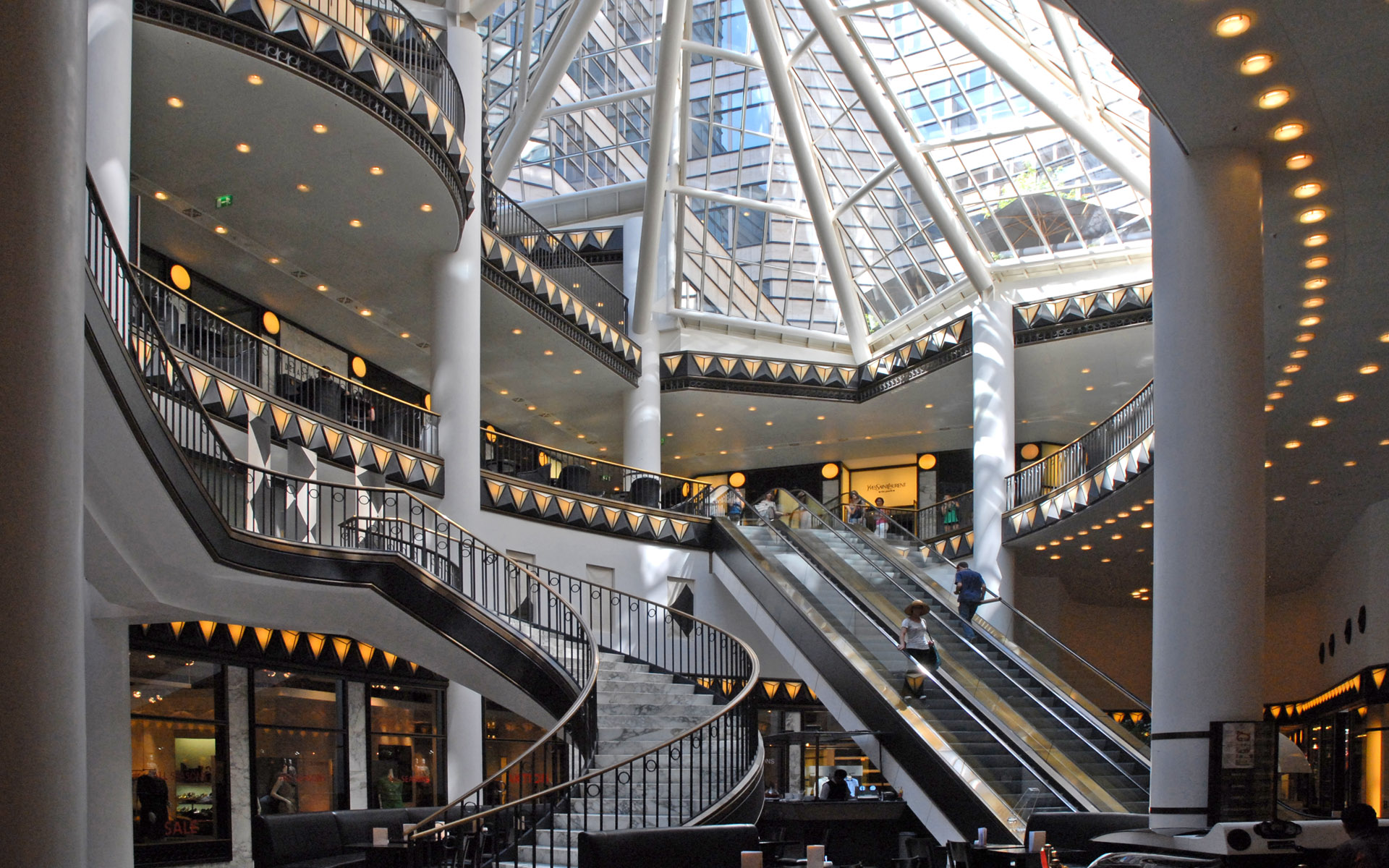 L'atrium du quartier 206 (Berlin) architectes : Pei, Cobb, Freed and Partners